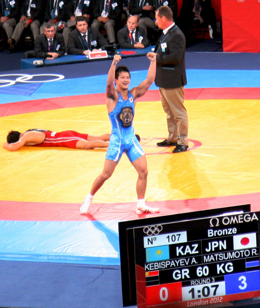 Almat Kebispayev vs. Ryūtarō Matsumoto (blue).